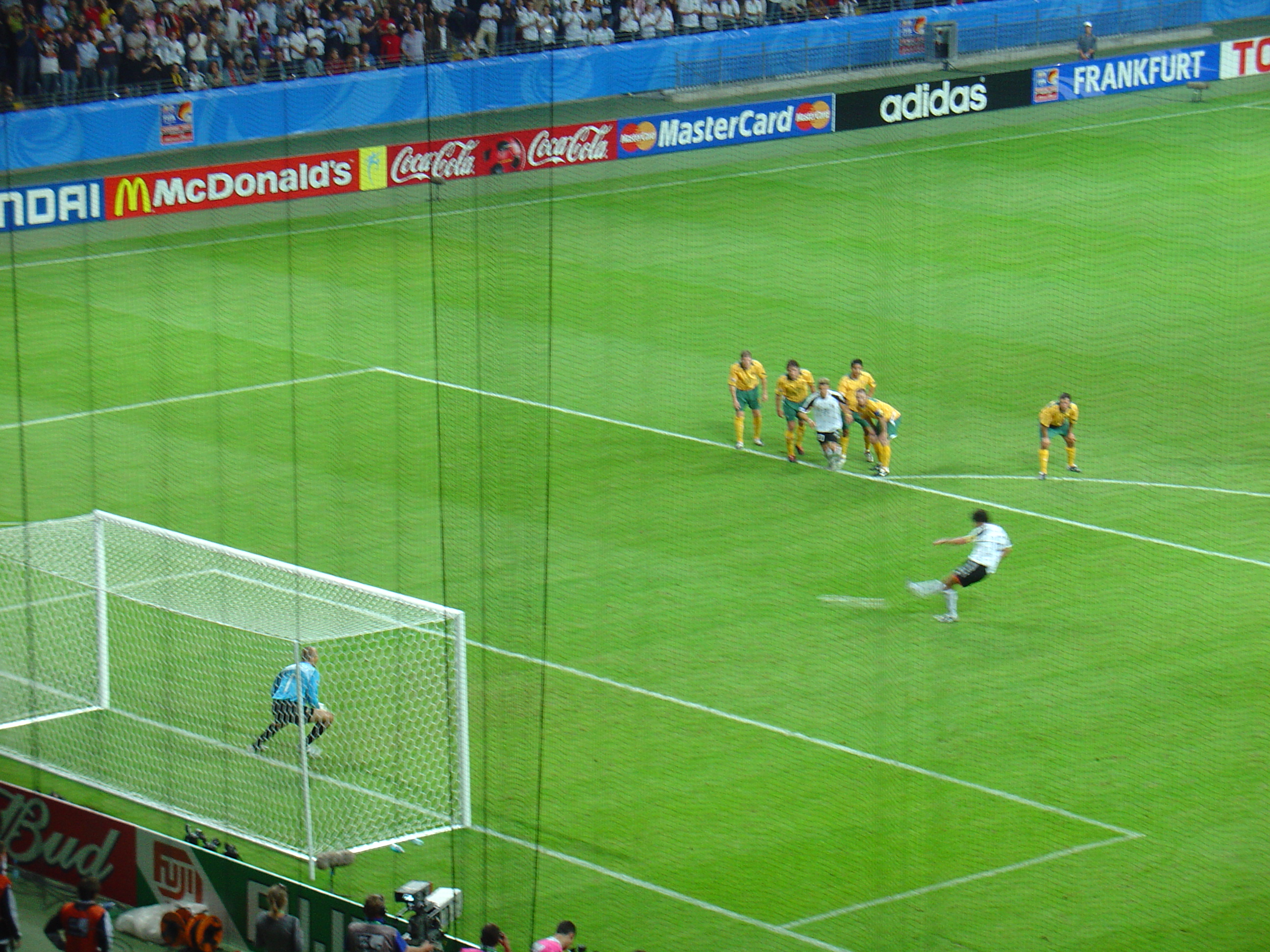 Michael Ballack converts a penalty for Germany in the opening match of the 2005 FIFA Confederations Cup against Australia at the Waldstadion Frankfurt